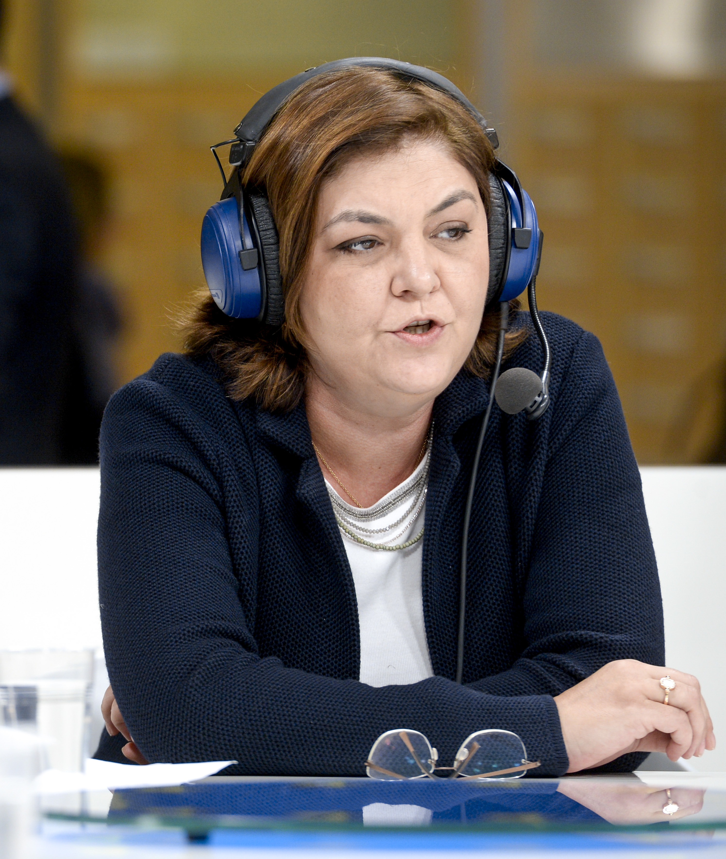 Adina Vălean